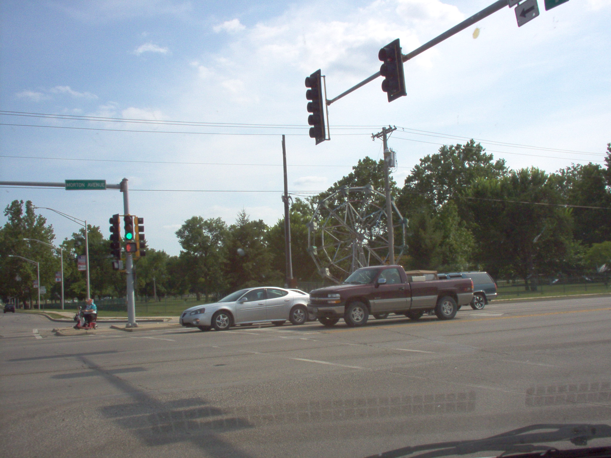 Big Eli Ferris Wheel at the corner of E Morton and S Main Street in Jacksonville, IL.